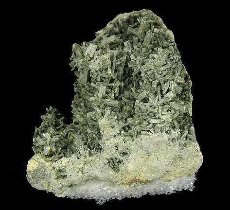 Amphibole (Var.: Uralite) Locality: Calumet Mine (Calumet; Calumet No. 2; Hecla; Hecla No. 2; Calumet Iron Mine; Calumet-Hecla-Smithville Magnetite Deposit; Patented Placer Claims: Calumet; Hecla-Williamson; Smithville No. 2; CF&I Company Mine), Turret District, Chaffee County, Colorado, USA (Locality at ) Size: 5.6 x 5.0 x 3.3 cm. These specimens have been referred to as "Uralite" for many years, but this is not a valid species. It is defined as being a variety of the amphibole group. Calumet "Uralites" are most often pseudomorphs of an amphibole (Actinolite) after a pyroxene (Diopside / Augite). The crystals are typically not visible as they are found coated by Calcite, which is etched away with hydrochloric acid to expose the underlying "Uralite" crystals. They are true classics from this famous mine which is most well known for its impressive Epidote and Quartz association specimens. Ex. Jaime Bird Collection.